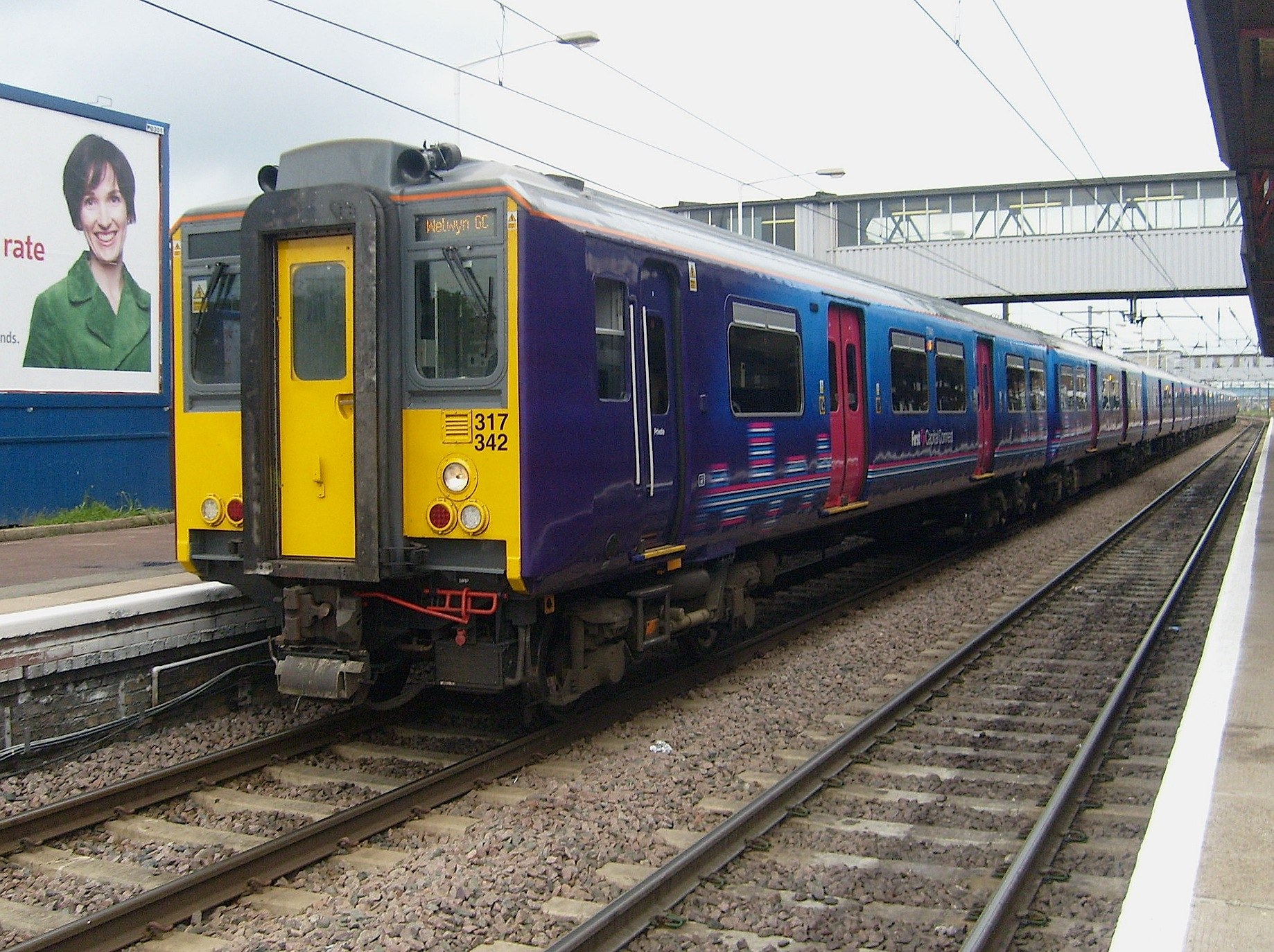 First Capital Connect Class 317 EMUs 317342 and 317340 at Peterborough Station